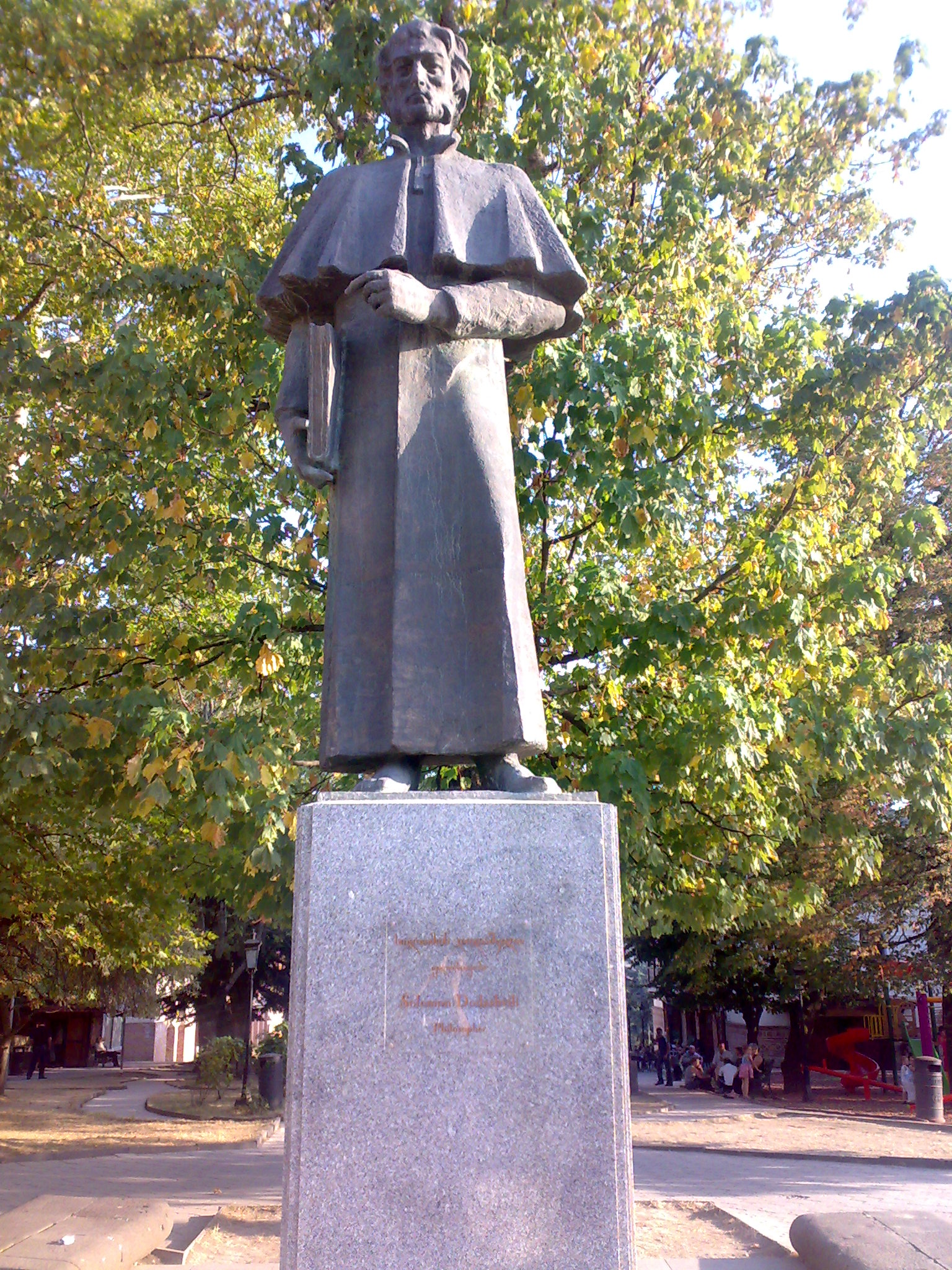 Solomon Dodashvili statue in Sighnaghi.